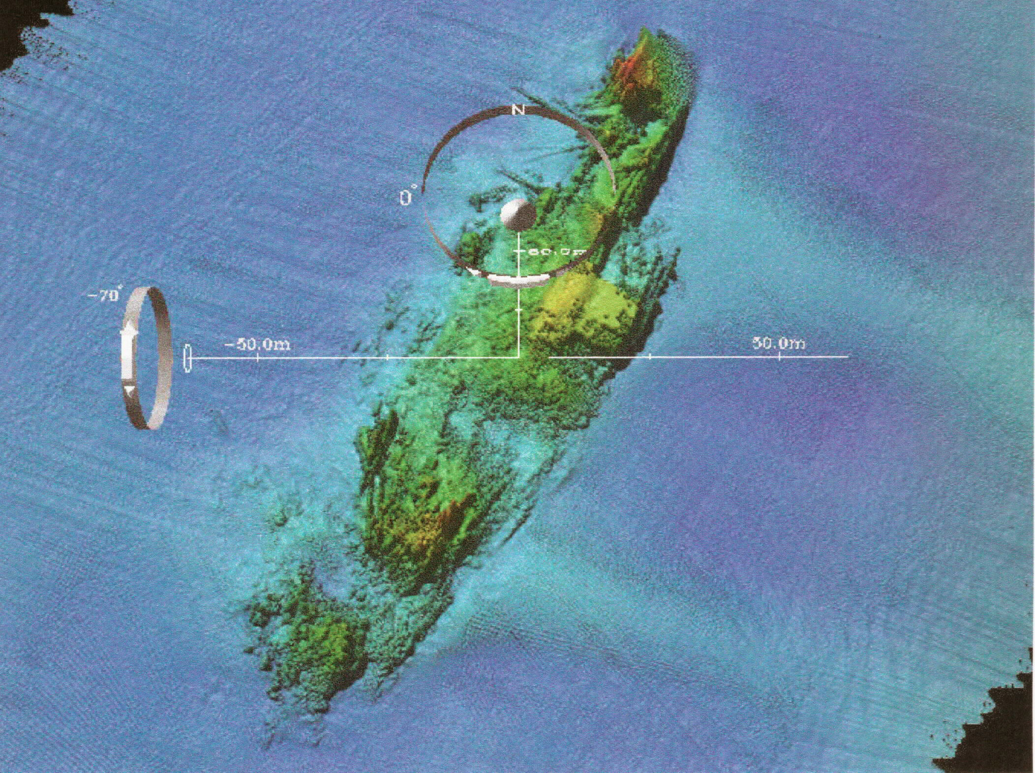 Naval Historical Center archeologists have just completed a three-year (2000-200) archeological remote-sensing survey of U.S. Navy shipwreck lost off France’s coastline during the World War II Normandy invasion. The survey focused on locating Navy losses and the temporary harbors used in Neptune, the naval portion of Operation Overlord, codename for the Allied invasion of Europe, (D-Day), June 6, 1944. Cooperative effort between the Naval Historical Center, RESON (an off shore technology company), FUGRO (a company that makes navigation products), and the Center for Coastal and Ocean Mapping and Joint Hydrographic Center (CCOM) produced very detailed multibeam images for the survey such as this overview of the USS Susan B. Anthony (AP-72). The Susan B. Anthony, a troop transport, struck a sea-mine and san on June 7, 1944. The booms and damage to the number one hole (at the bow) are easy to see in this image. U. S. Navy photo.